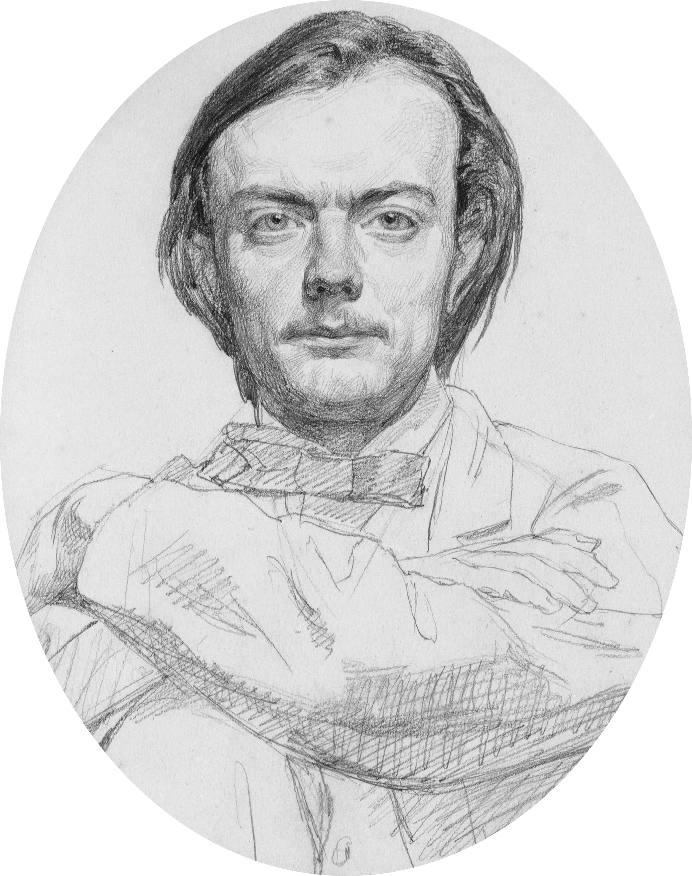 Nikolai Murashko (1844-1909) pencil and charcoal on paper signed below the mount: 9 o'clock in the evening, November 11/I. Repin/1866